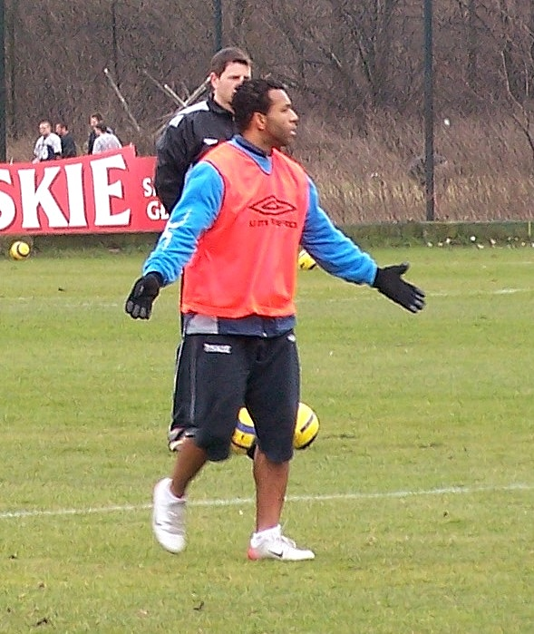 Jean Paulista uring practice by Wisła Cracov, 2007